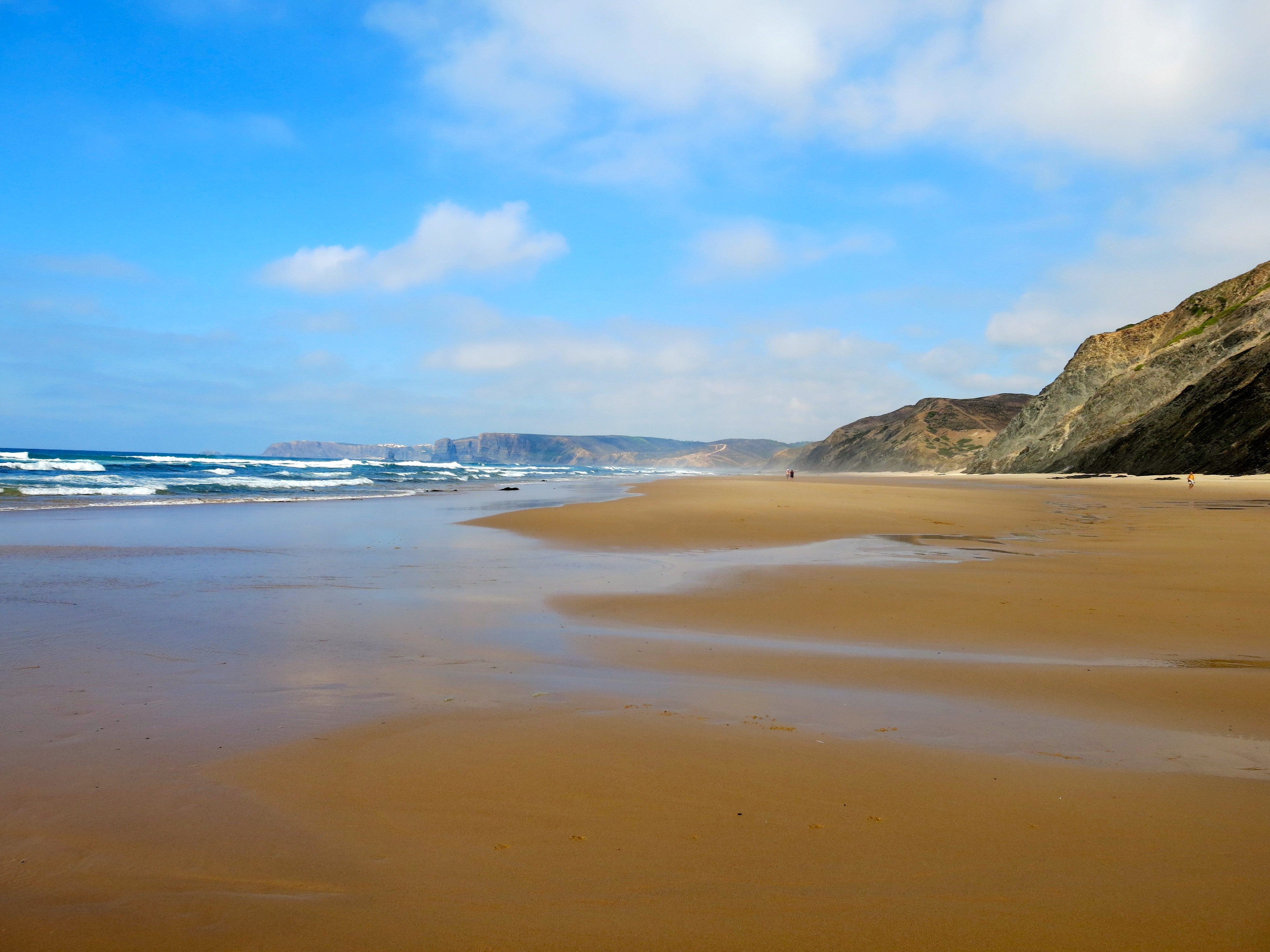 Looking North along Praia do Penedo - A road trip adventure across Portugal! More at